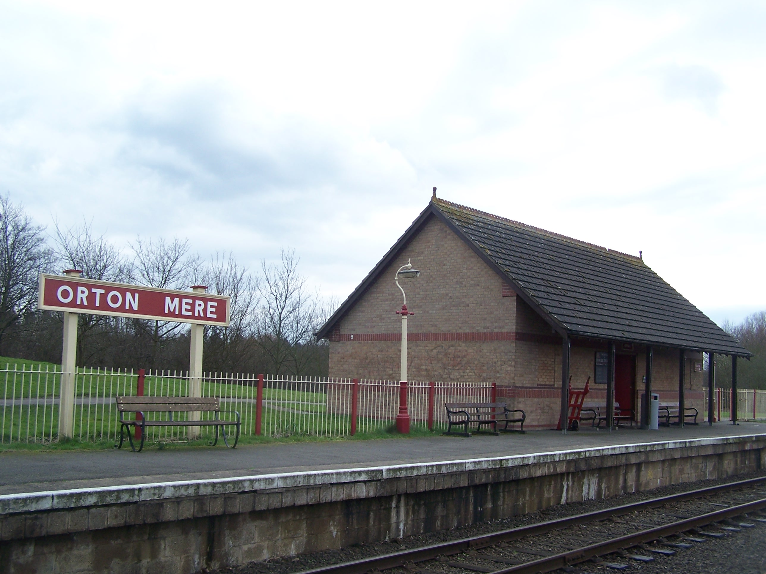 The Orton Mere station building, constructed in 1983.